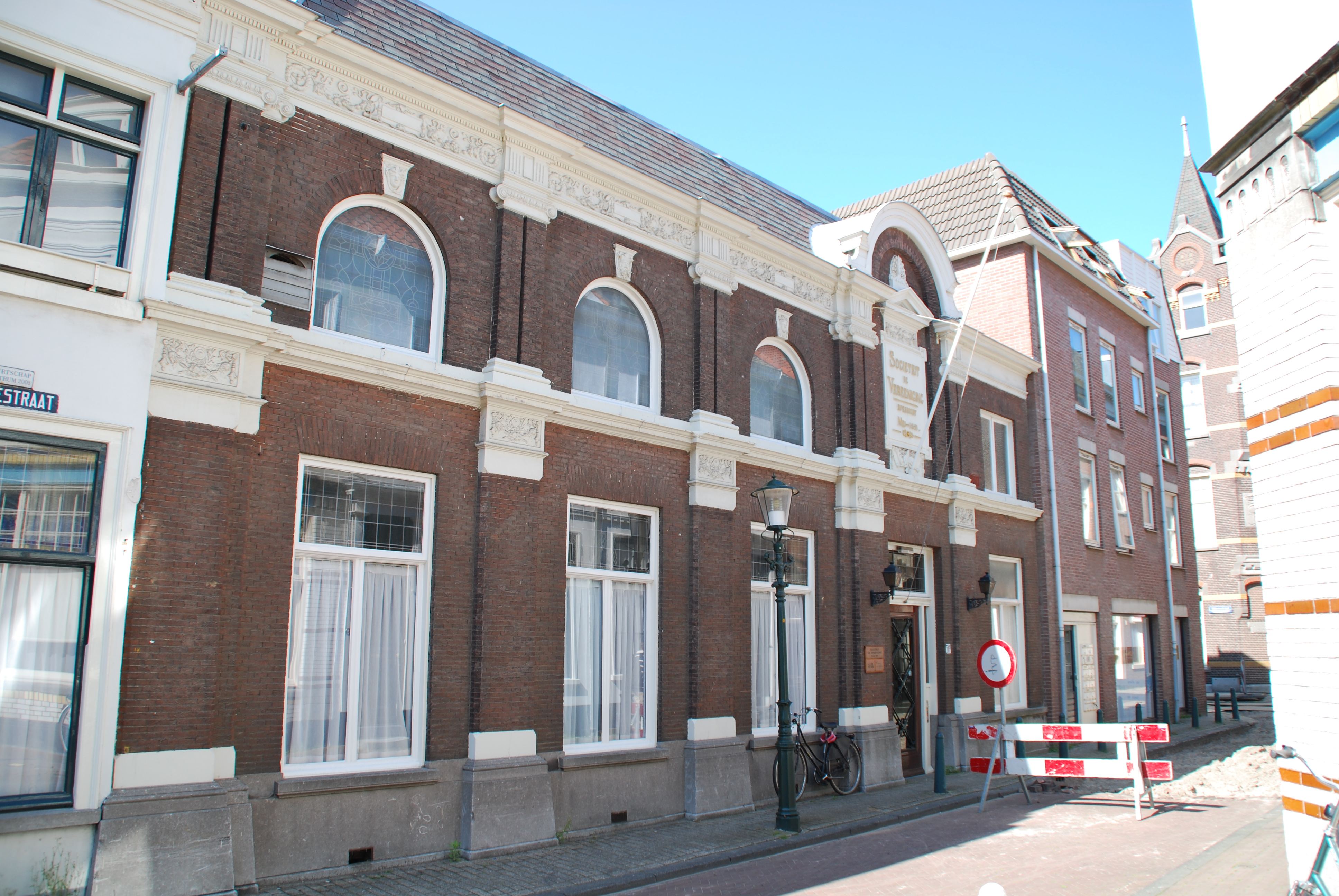 Sociëteit De Vereeniging, the Hague - the Netherlands